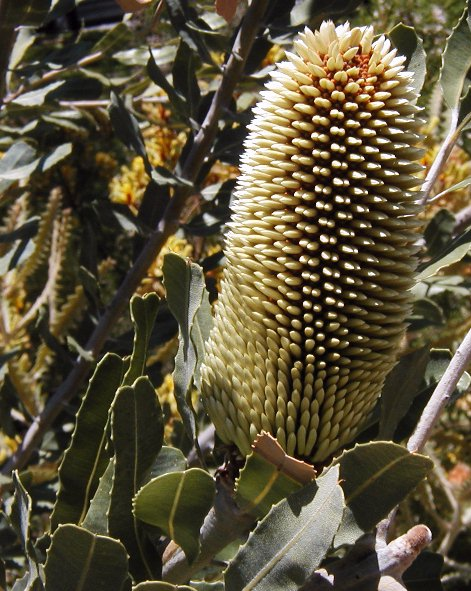 Banksia sceptrum in bud, Kings Park December 2004 photo Cas Liber